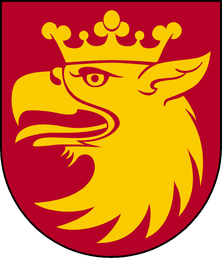 Coat of arms of the county of Skåne, Sweden. Painted by Vladimir A. Sagerlund when he was the heraldic artist at the National Archives of Sweden (Riksarkivet). This representation of a coat of arms is potentially different from the one used by the armiger (municipality or organisation) in question. = ⇑“Sable, a lionrampant or” This coat of arms was drawn based on its blazon which – being a written description – is free from copyright. Any illustration conforming with the blazon of the arms is considered to be heraldically correct. Thus several different artistic interpretations of the same coat of arms can exist. The design officially used by the armiger is likely protected by copyright, in which case it cannot be used here.Individual representations of a coat of arms, drawn from a blazon, may have a copyright belonging to the artist, but are not necessarily derivative works. Further information: Commons:Coats of arms and Template:Coa blazon